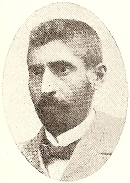 Source: På obanade stigar; tjufofem år i Ost- Turkestan., Stockholm, Svenska missionsförbundets förlag [1917]